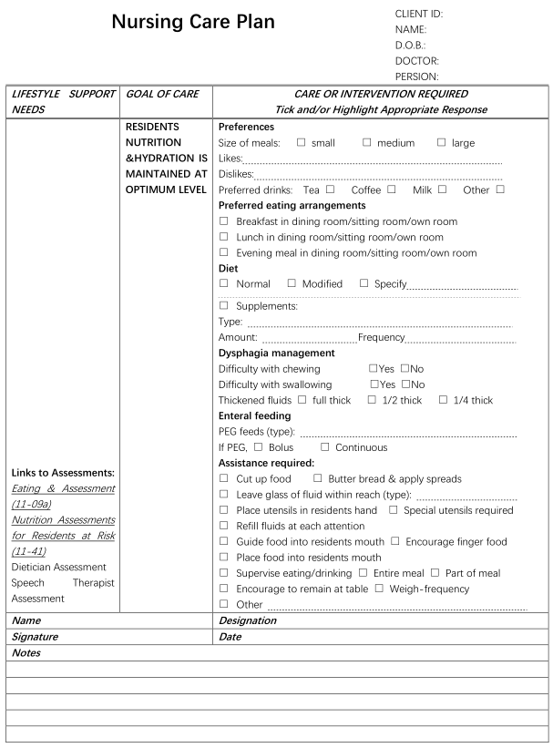 Figure 3-3. An example of a nursing care plan in an Australian residential aged care home.